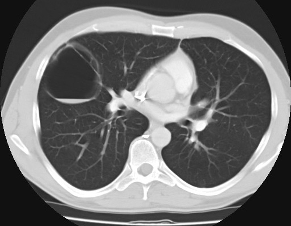 Contrast – enhanced computerized tomography of the chest of the patient with congenital cystic adenomatoid malformation (CCAM)